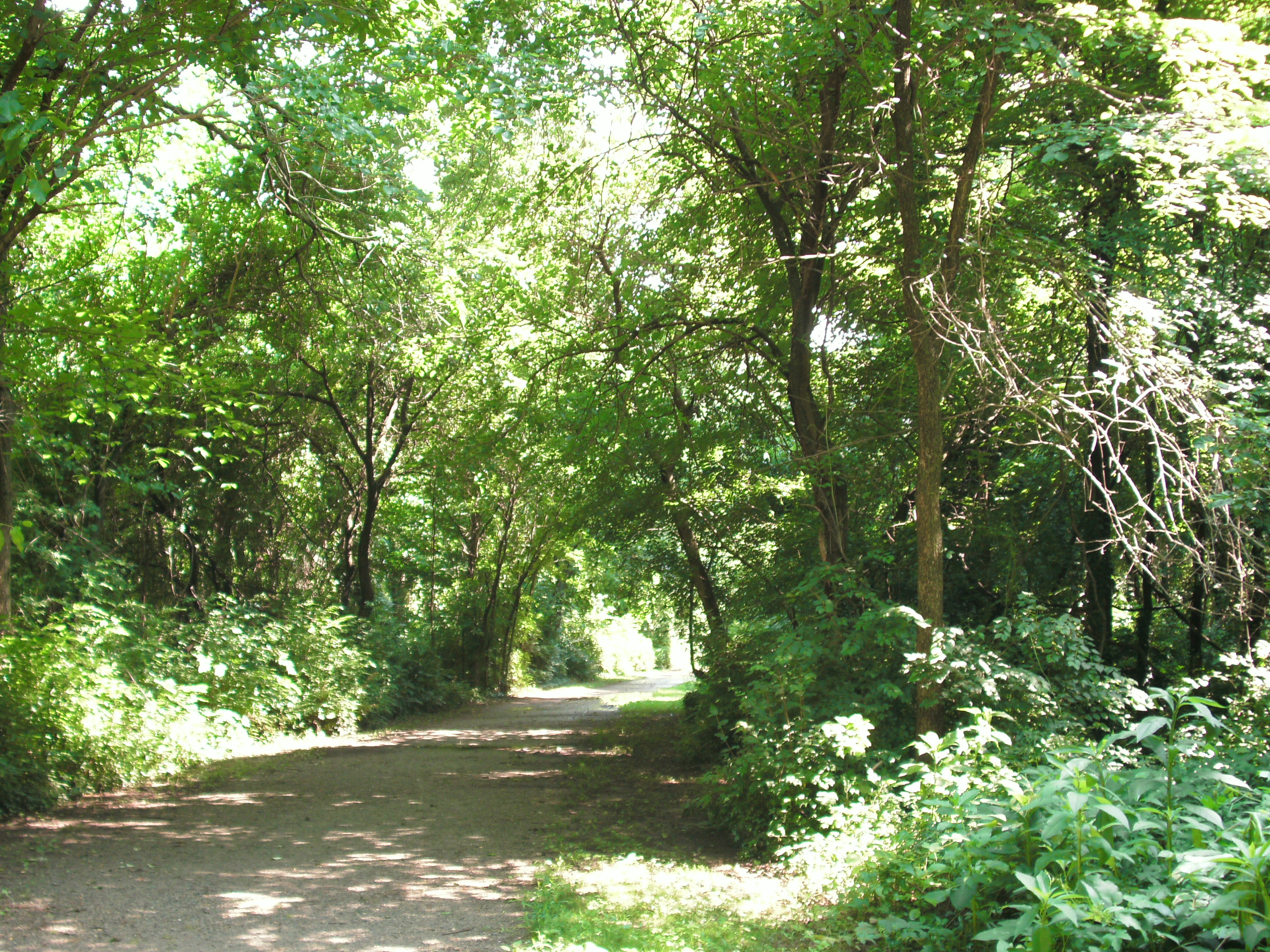 Image I took for Wikipedia